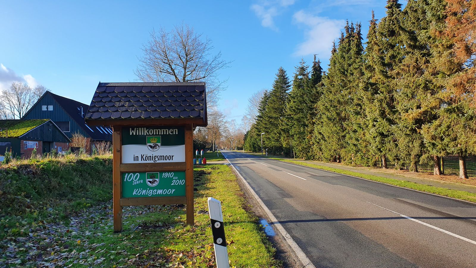 Königsmoor Ortseingang